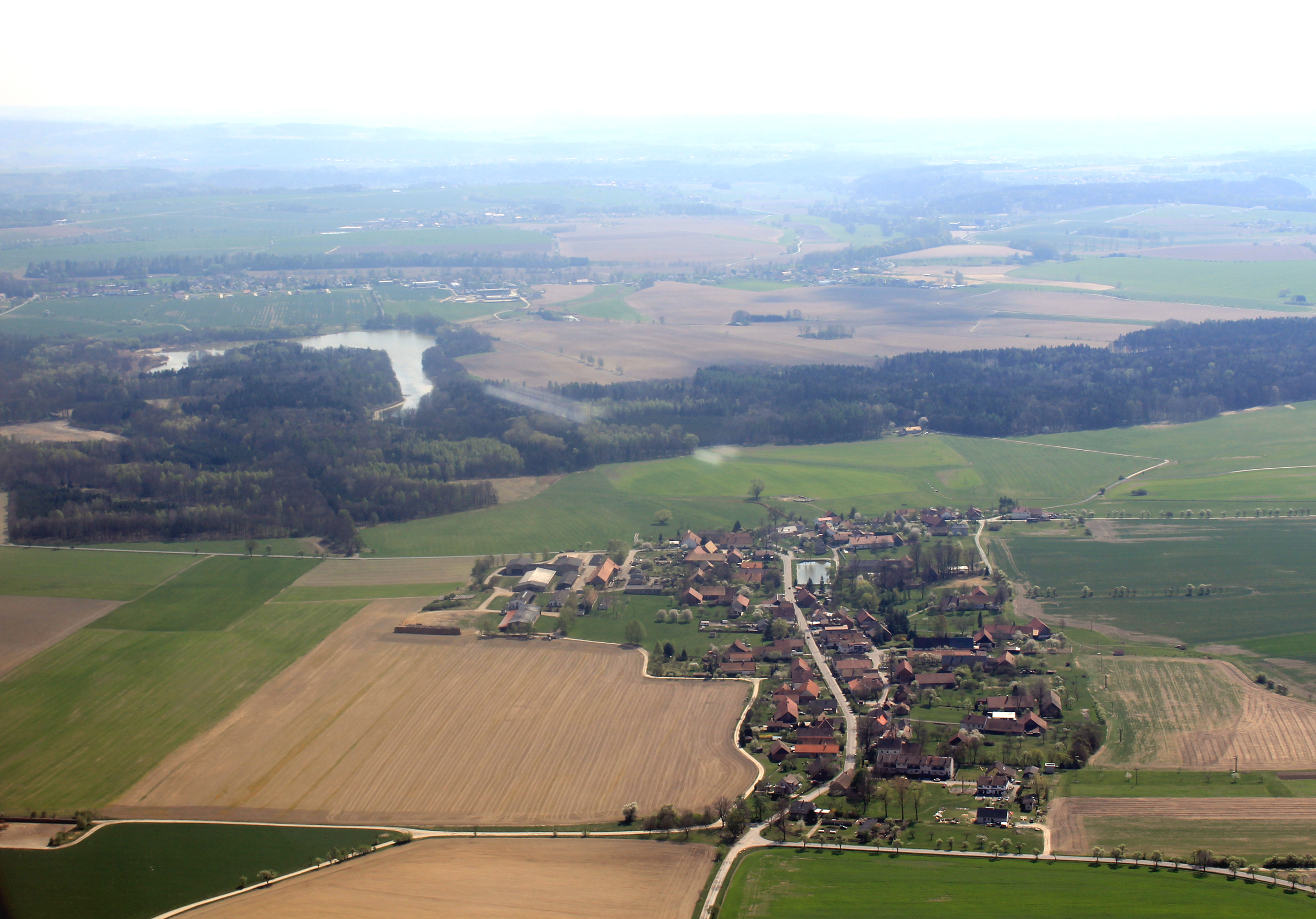 Village Byzhradec in Rychnov nad Kněžnou District from air, eastern Bohemia, Czech Republic